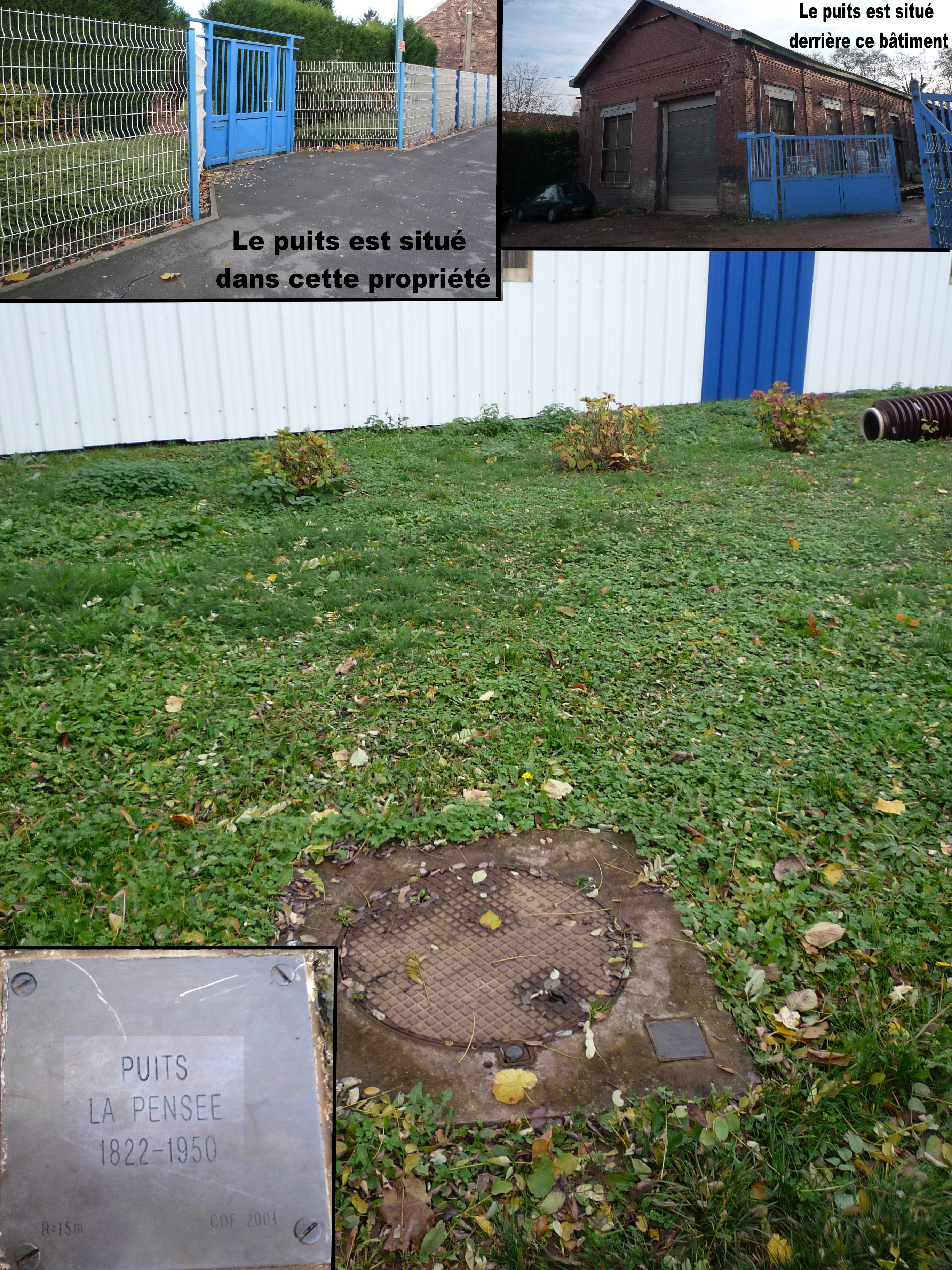 Pit La Pensée of the Compagnie des mines d'Anzin, Abscon, Nord-Pas-de-Calais, France.